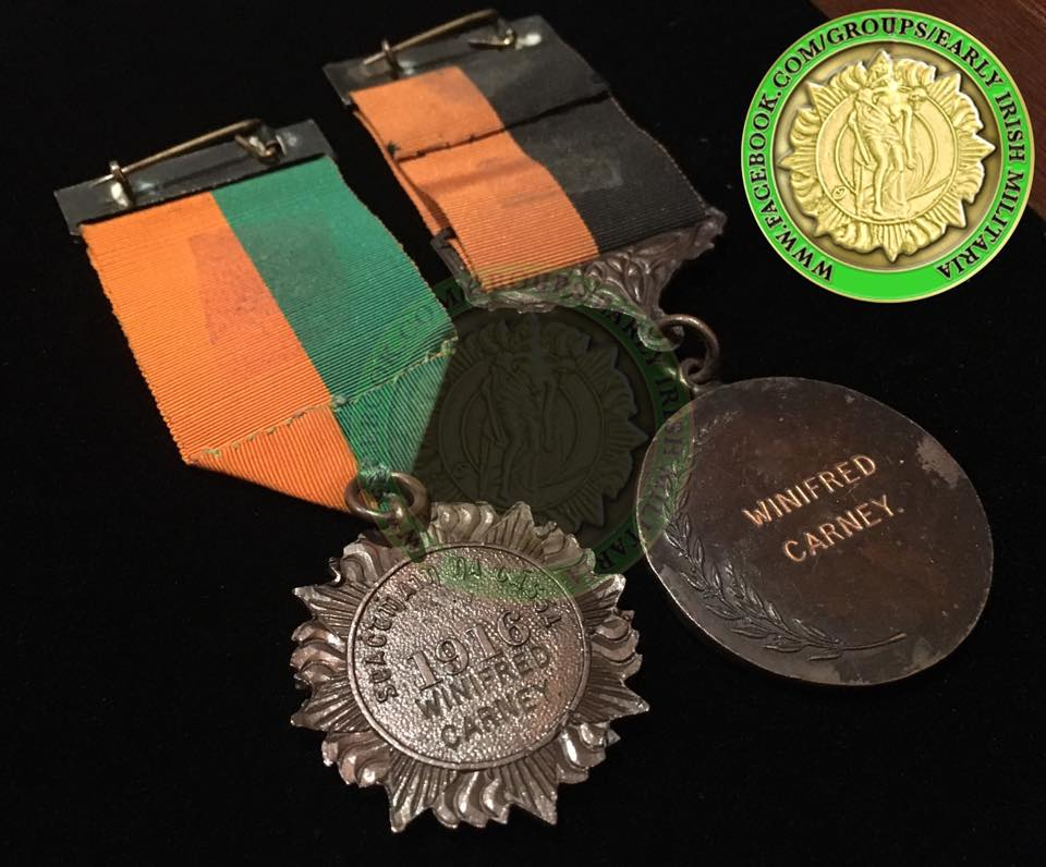 Winifred Carney's 1916 medal, awarded posthumously, surfaced in 2016 and was purchased by the Dullaghan Private Collection.